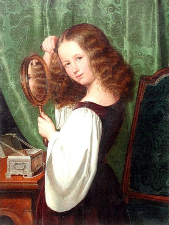 Sophie Hasenclever, painted by her father Friedrich Wilhelm von Schadow, 1833